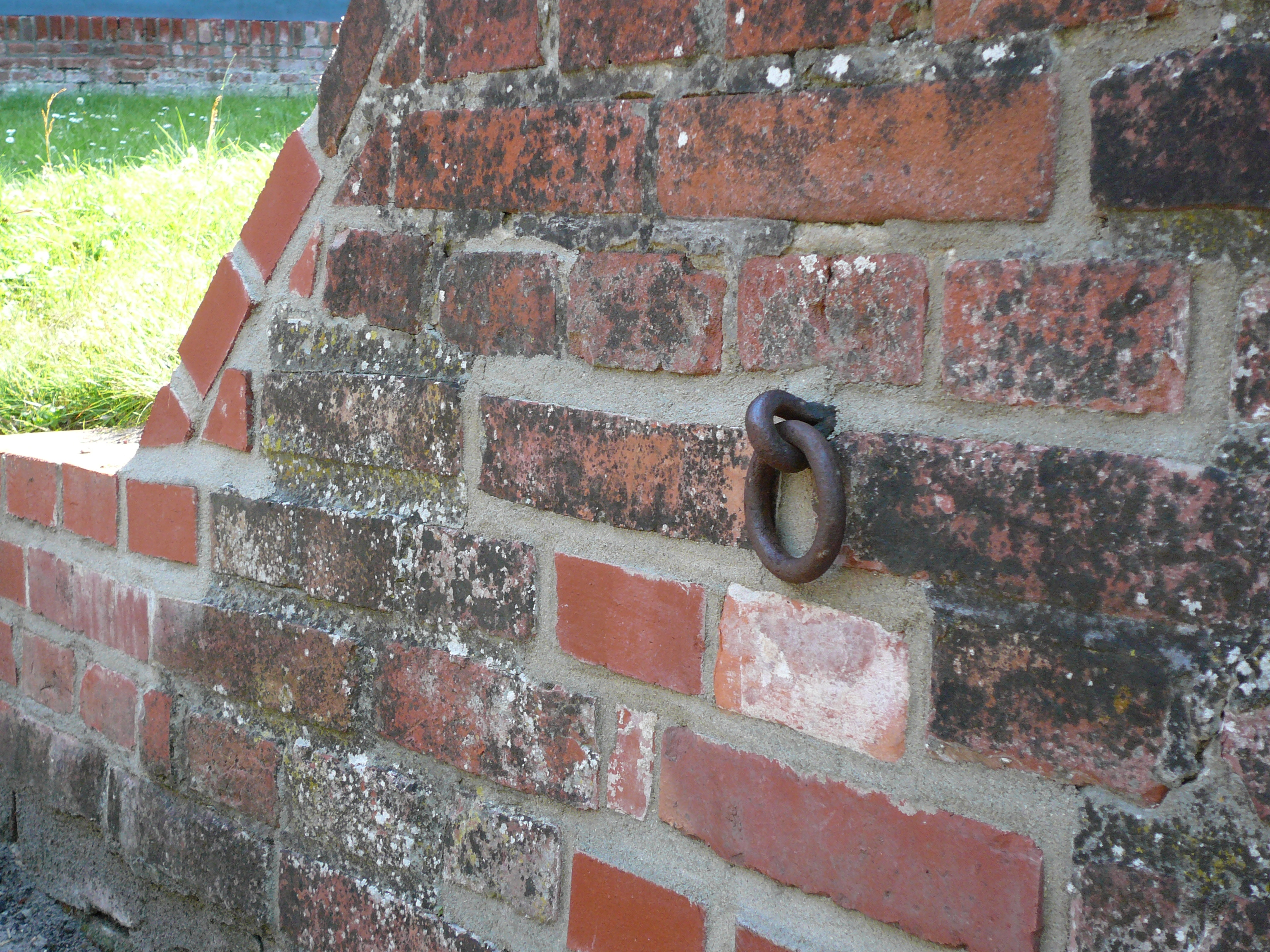 The mooring rings at the stonewall of the curch of St. Jürgen in Lower Saxony, where boats were tied in the past, when a flood occured